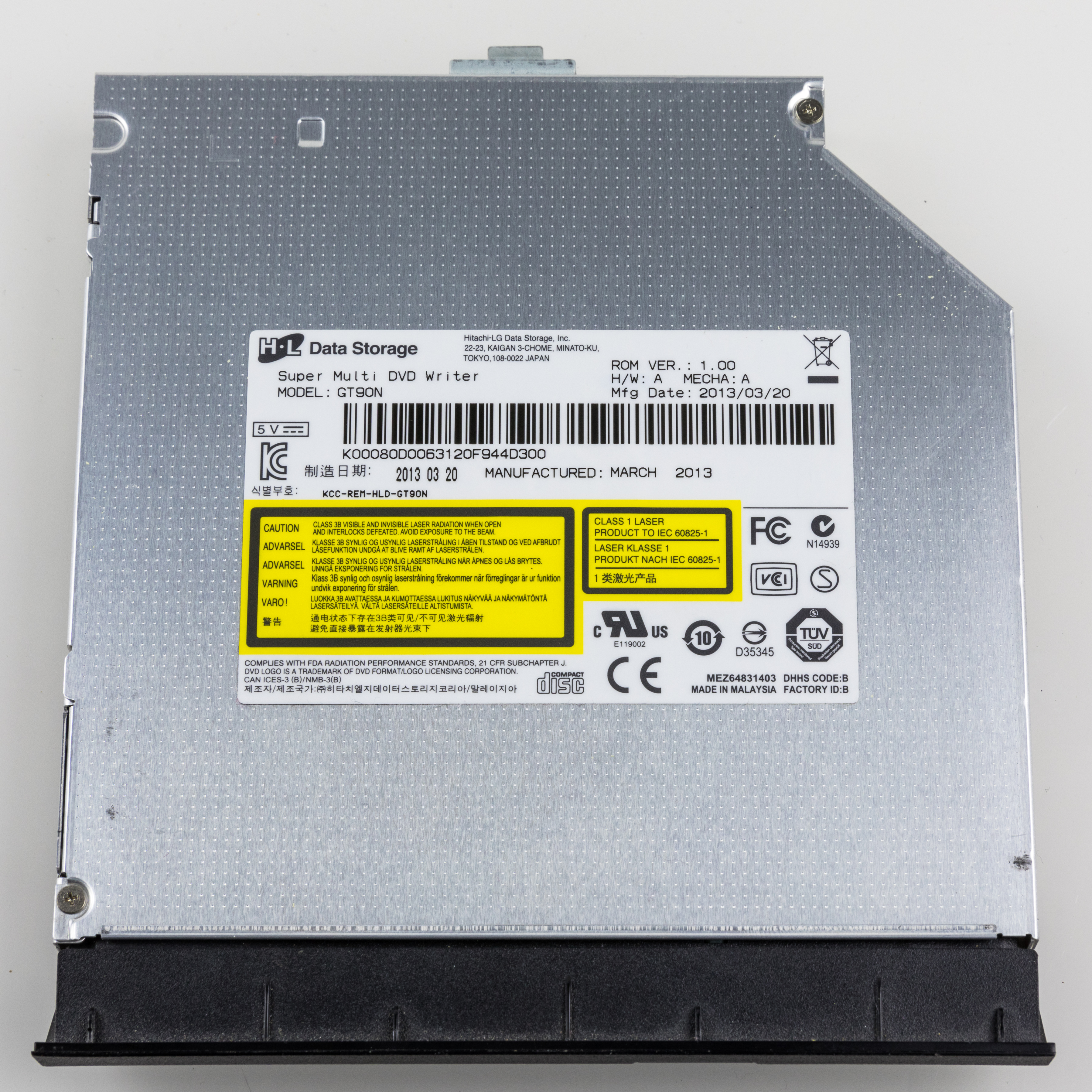 H-L Data Storage GT90N - Super Multi DVD Writer